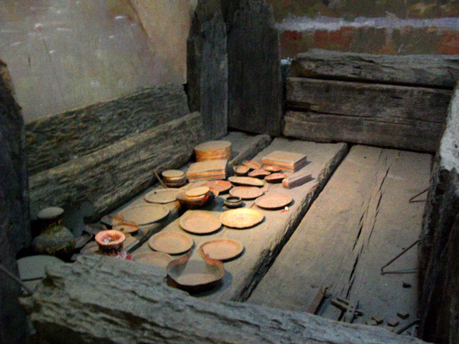 Tomb of Xiahou Zao, son of Xiahou Ying. Now located in the museum in Fuyang city, Anhui province, China. Texts and other items were found in the tomb, and the find was dubbed Shuanggudui. (2nd chamber.)